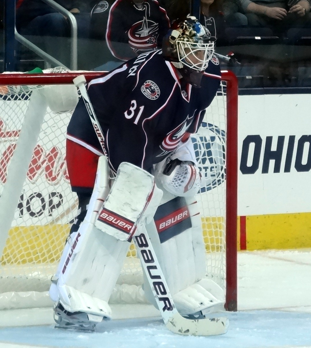 Columbus Blue Jackets goalie Curtis McElhinney during a game against the Pittsburgh Penguins, November 1, 2013, at Nationwide Arena in Columbus, OH.